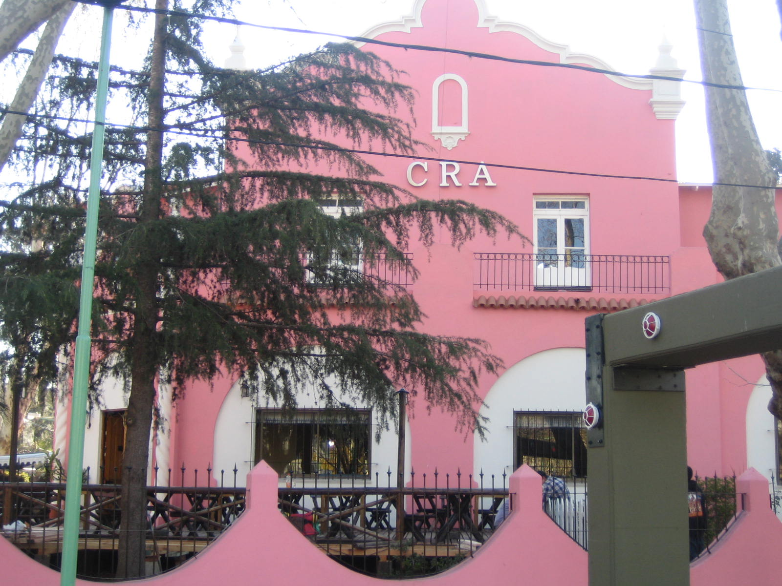 Club de Regatas América - El Tigre - Buenos Aires - Argentina